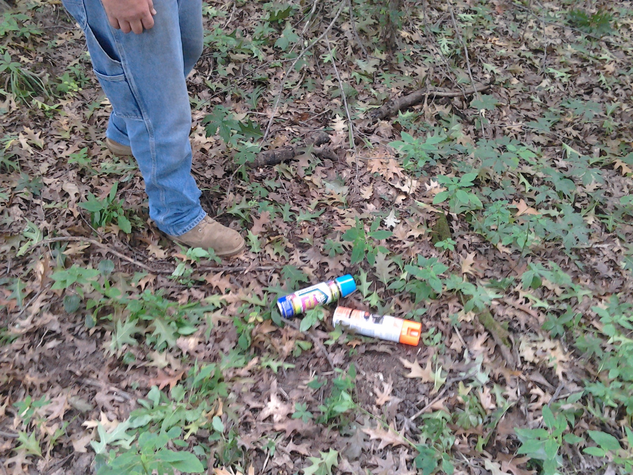 When there are many red oak leaves on the ground in the middle of summer, not autumn, you know it is oak wilt. Look up from that pile of many colored oak leaves and you will see the oak(s) that have lost the leaves / are wilting from oak wilt disease.